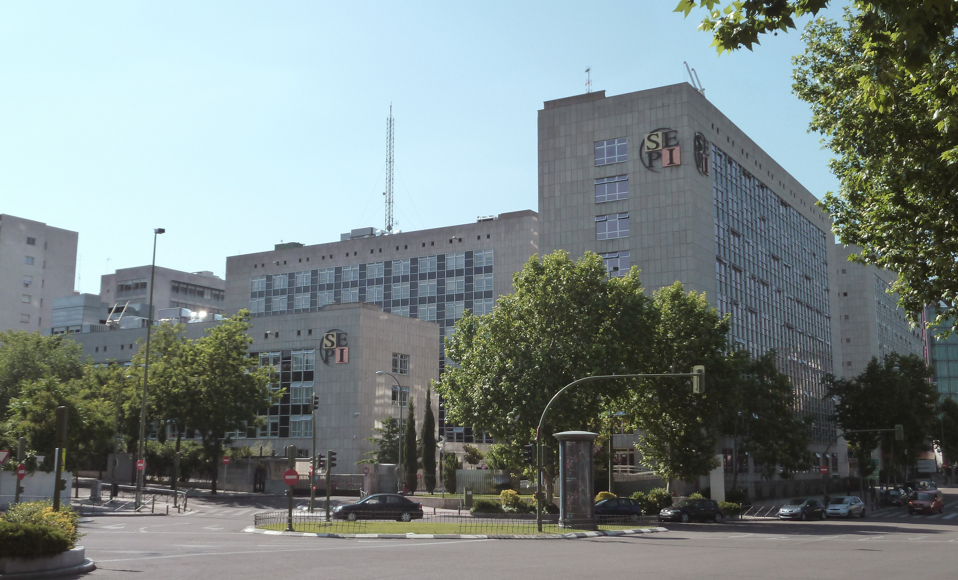 View of SEPI headquarters in Madrid (Spain).